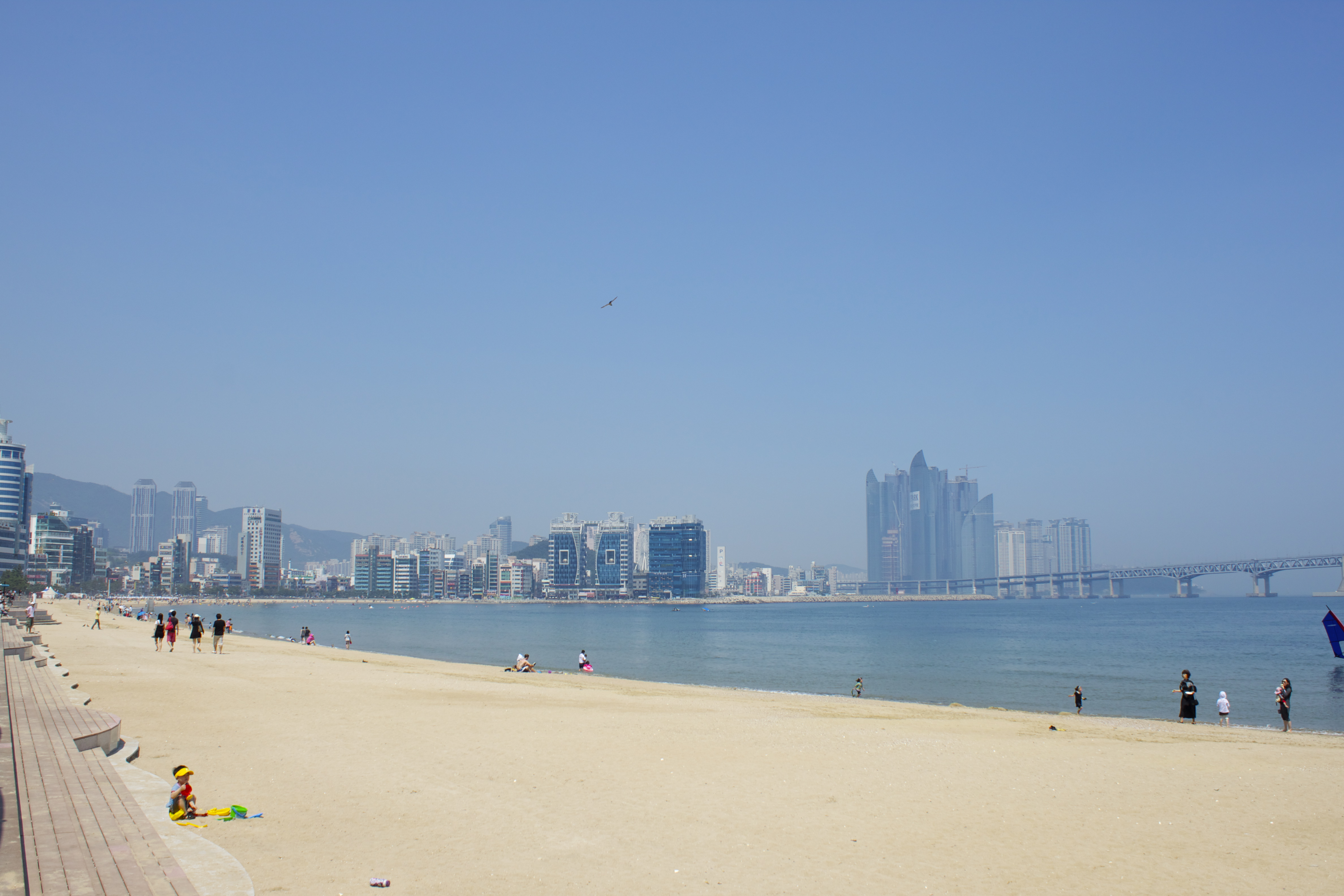 Gwangalli Beach, Busan, South Korea. Photograph from Flickr; author Chelsea Hicks; license of cc-by-2.0.